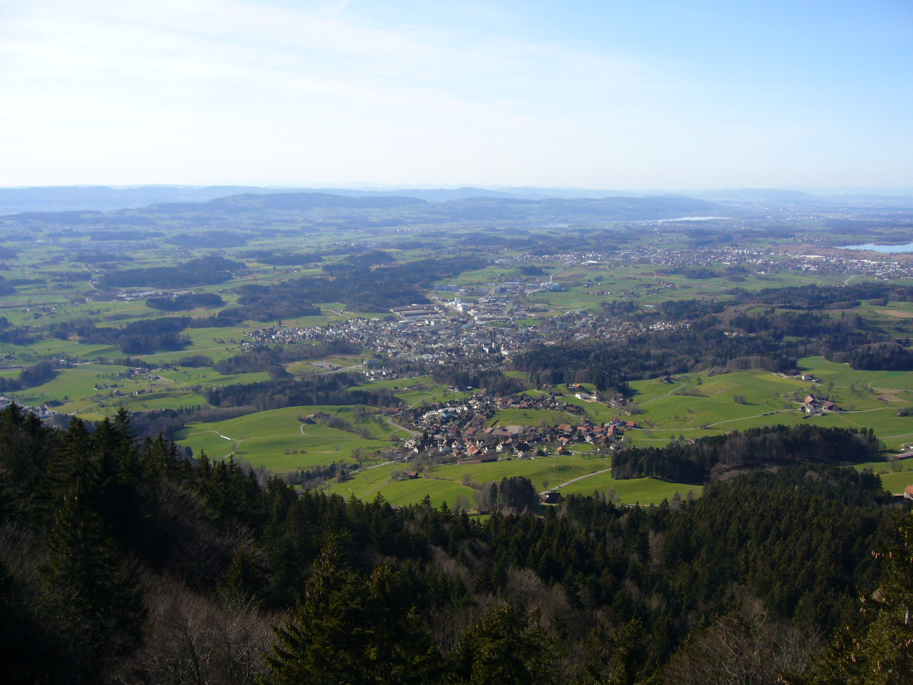 village of Hinwil canton of Zurich, Switzerland. Picture taken from the top of the mountain Bachtel by Peter Berger. March 4, 2007.